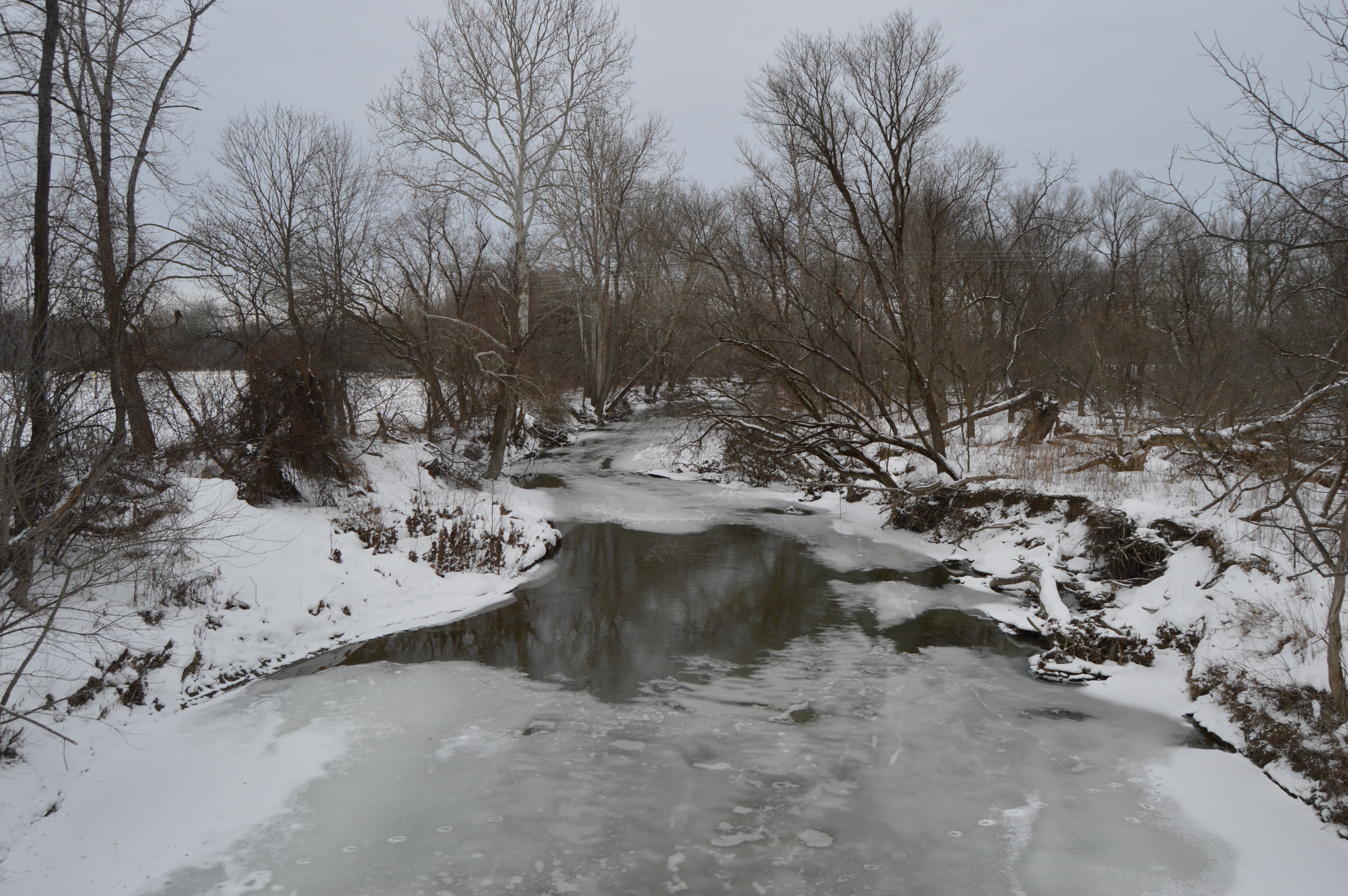 Looking southeast (upstream) along the frozen Conneaut Creek from Shadeland Road northwest of Springboro in Spring Township, Crawford County, Pennsylvania, United States.